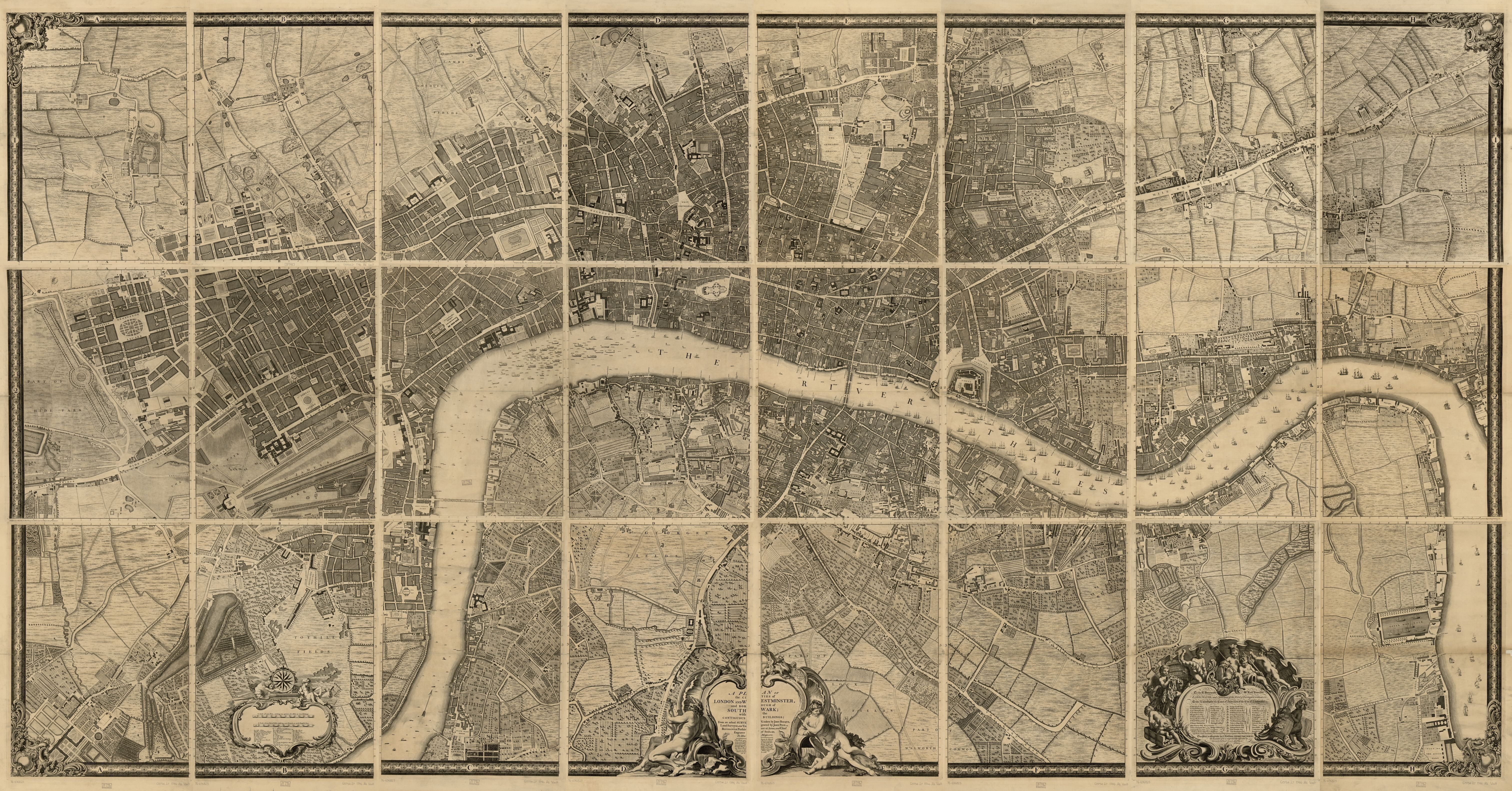 A plan of the cities of London and Westminster, and borough of Southwark, with the contiguous buildings